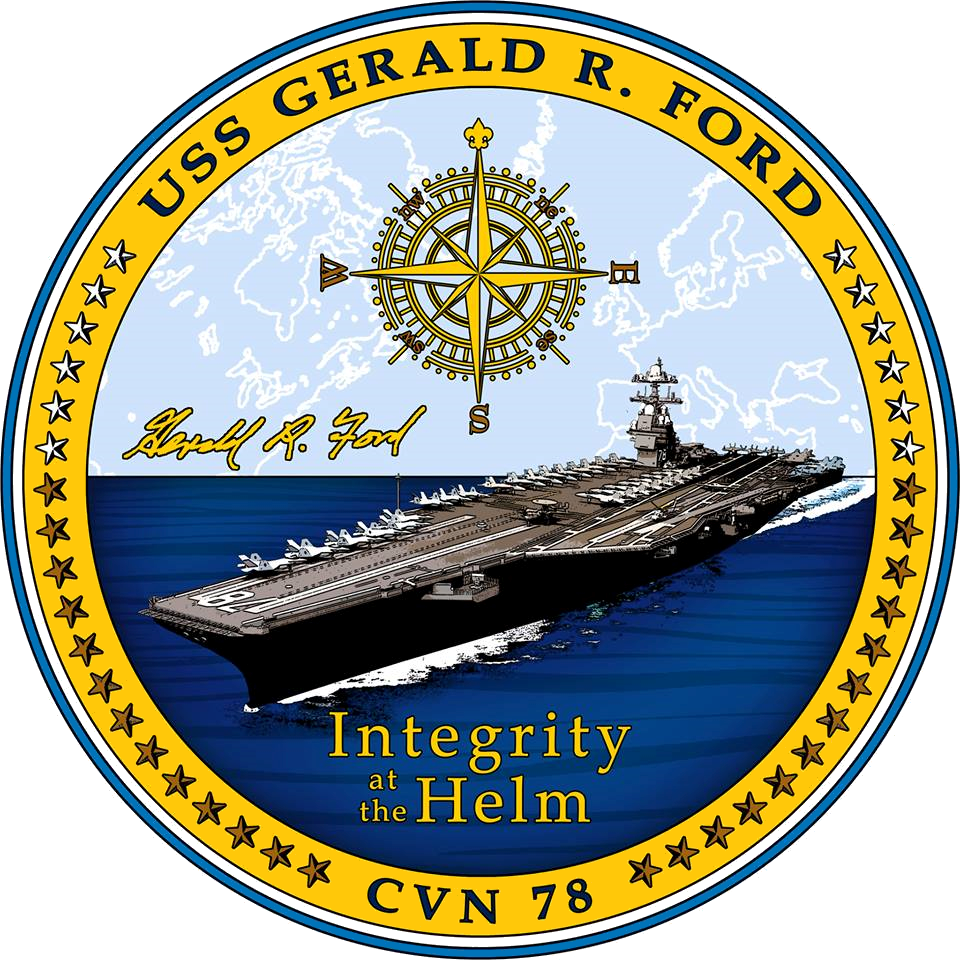 The USS Gerald R. Ford (CVN-78) ship's crest.